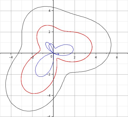 Example of generalized conchoid